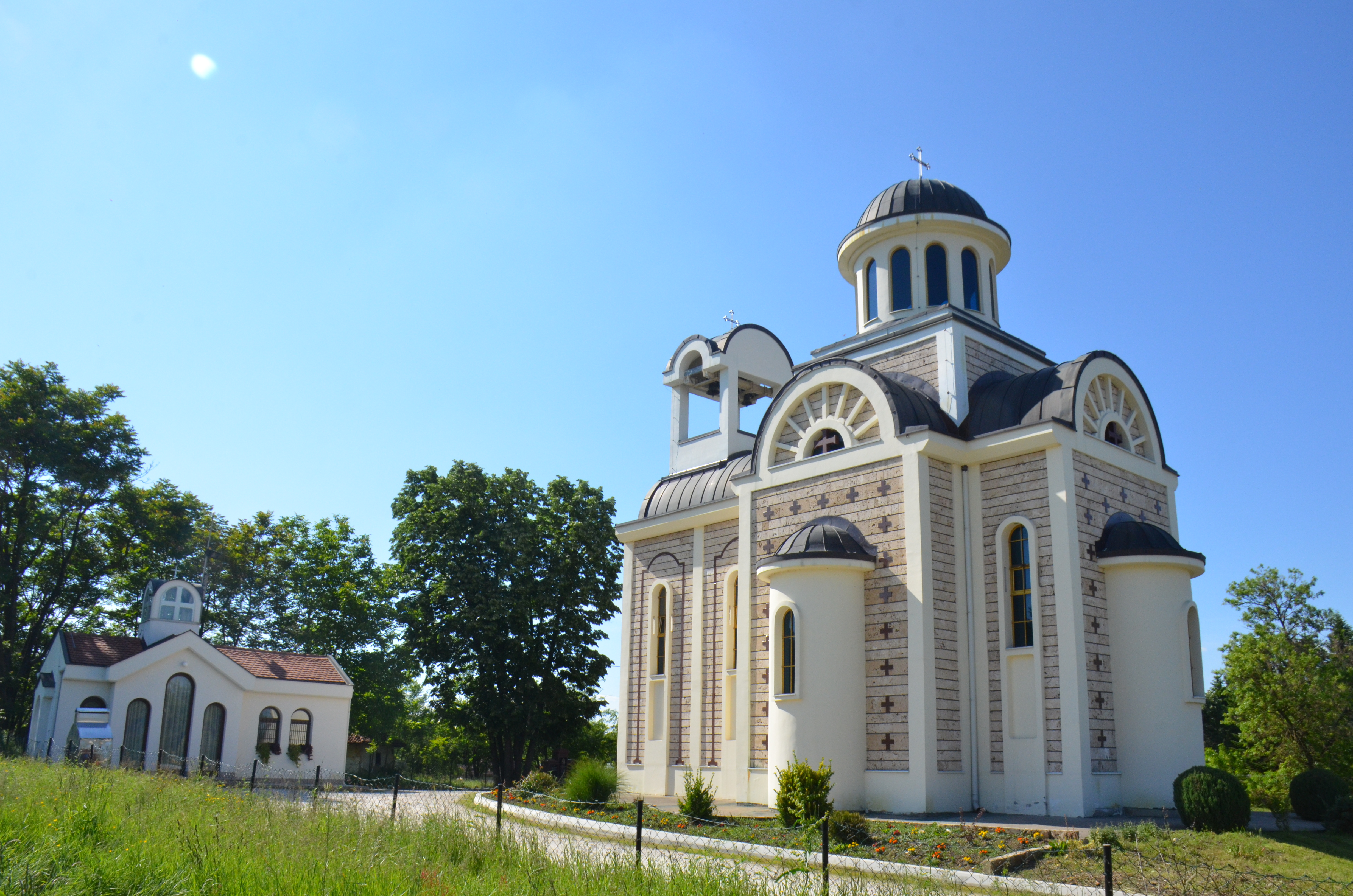 Zapis - Sacred Tree, Linden in village Atenica, municipality Čačak, Serbia Srpski (latinica): Zapis - Lipa kod crkve, selo Atenica, Opština Čačak, Moravički okrug, Srbija Српски (ћирилица): Запис - Липа код цркве, село Атеница, Општина Чачак, Моравички округ, Србија